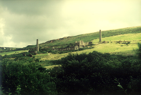 Wheal Bassett. This is the area of the Great Flat Load, one of the richest sources of copper and tin in Cornwall and where the Basset family made their fortune. The countryside is littered with the remains of mining activity.